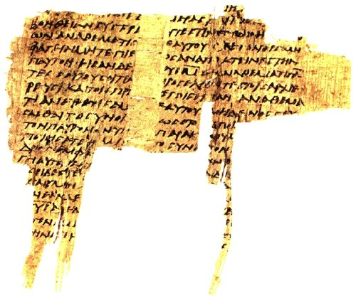 Papyrus 48 recto